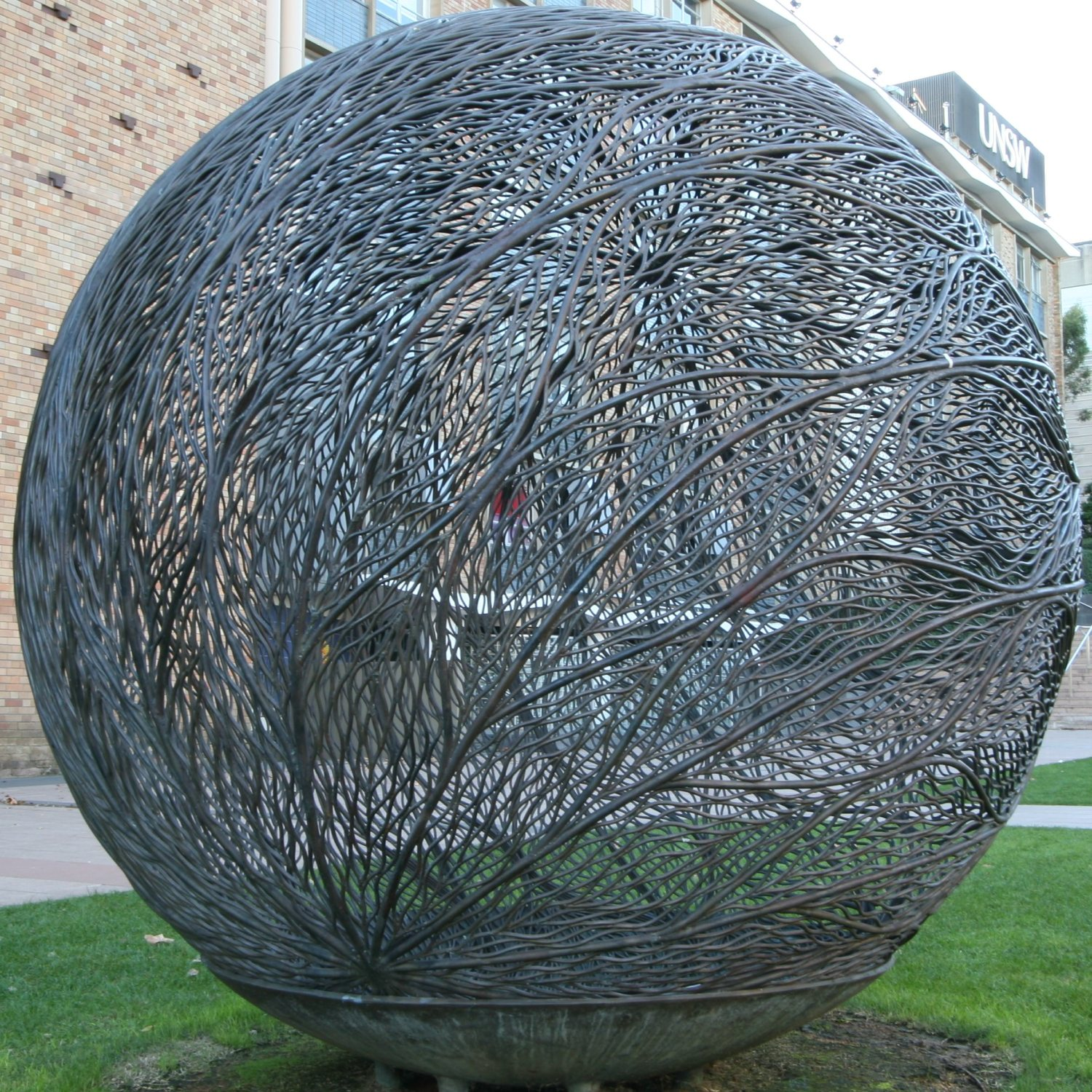 Globe is a sculpture on the UNSW engineering lawn (which is apparently now called "International Square" - first I've heard of it). More info here. Taken for squared circle. See where this picture was taken. [?]